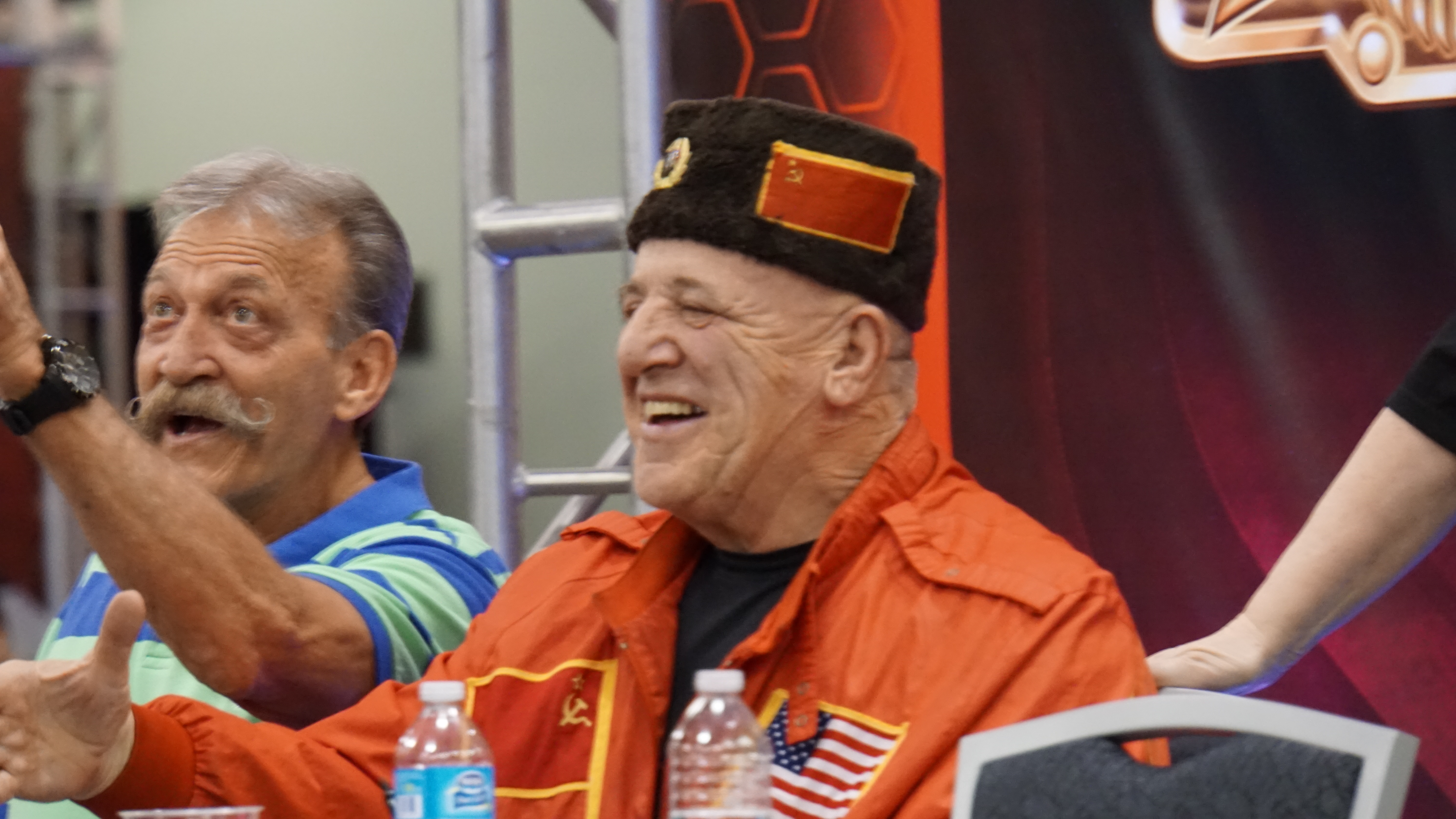 WWE WrestleMania XXXI - Las Vegas - San Jose - Los Angeles - Axxess Saturday Morning Get ready for WWE's biggest fan event of the year, asWrestleMania Axxess prepares to take over the San Jose ConventionCenter in California March 26-29! ( Our Tour in Las Vegas, San Jose and Los Angeles for Wrestlemania 31 from San Jose )